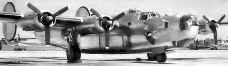 Douglas-Tulsa B-24J-5-DT Liberator 42-51327 449BG 717BS